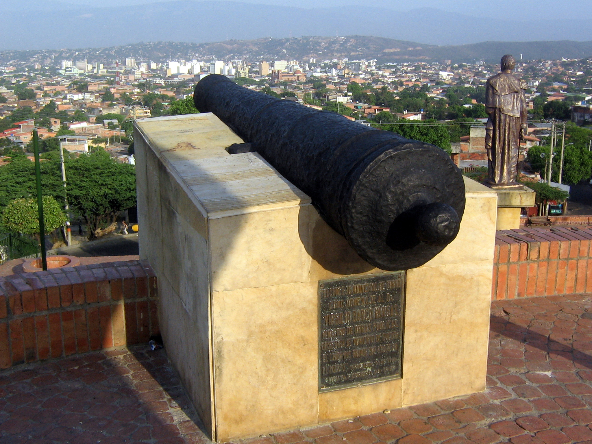 Canon of the Battle of Cúcuta